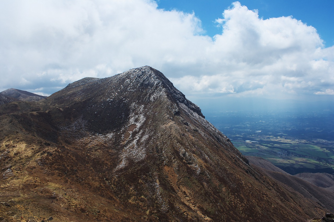 Mount Kuju as seen from the southwest.